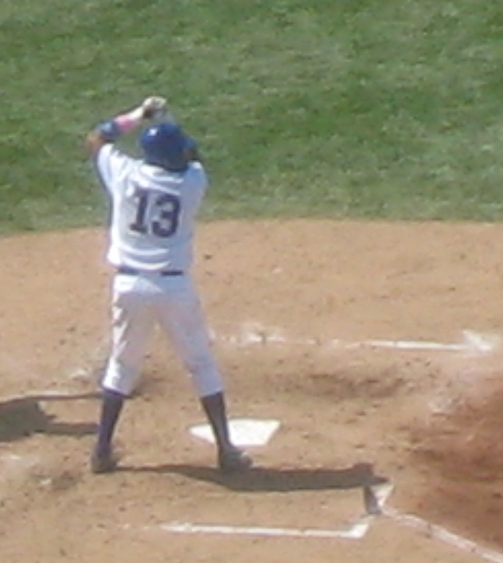 Neifi Pérez in 2006, during his tenure with the Chicago Cubs.